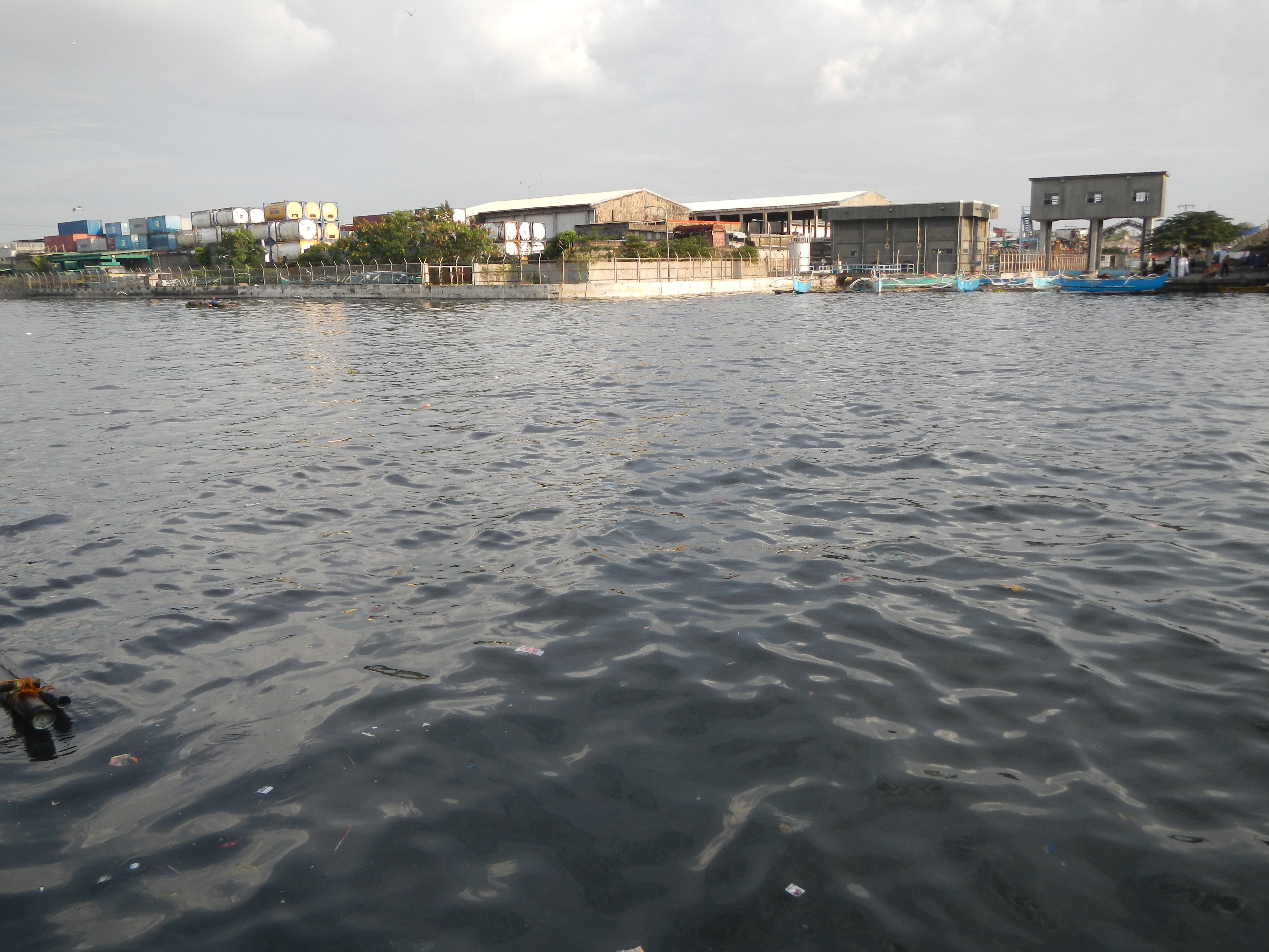 Upload Wizard photos of -- (general description of landmarks, town, church) - Navotas Bridge and polluted River along C-4 Road [1] Coordinates:14°39'0"N 120°56'54"E List of rivers and estuaries in Metro Manila [2] - the City Walk - along Navotas River, under the New Longest Bridge of Navotas, Manila Bay [3] Website - Del Pan Bridge, passing along north through Marcos Road or the Radial Road 10 [4] the Circumferential Road 4 [5] Navotas [6] that goes past Piers 2 to 16, the North Bay Pier Stations, all the way to Navotas River.[7] [8] - near and adjoining the - the Bus Grand Terminal of Navotas City - in - Navotas Centennial Park Navotas City Coordinates: 14°39'2"N 120°56'50"E.